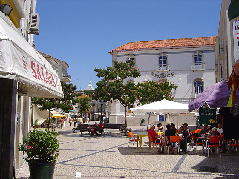 Misericórdia Square, Setúbal, Portugal